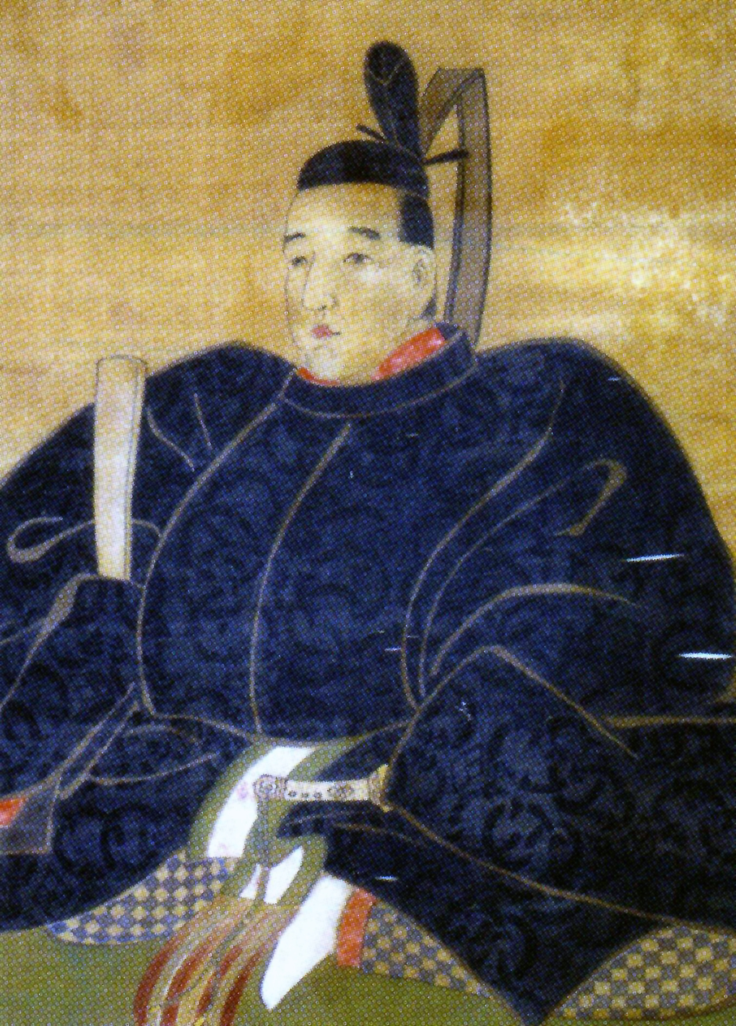 portrait of Ikeda Yoshiyasu(the 3rd feudal lord of Tottori clan)